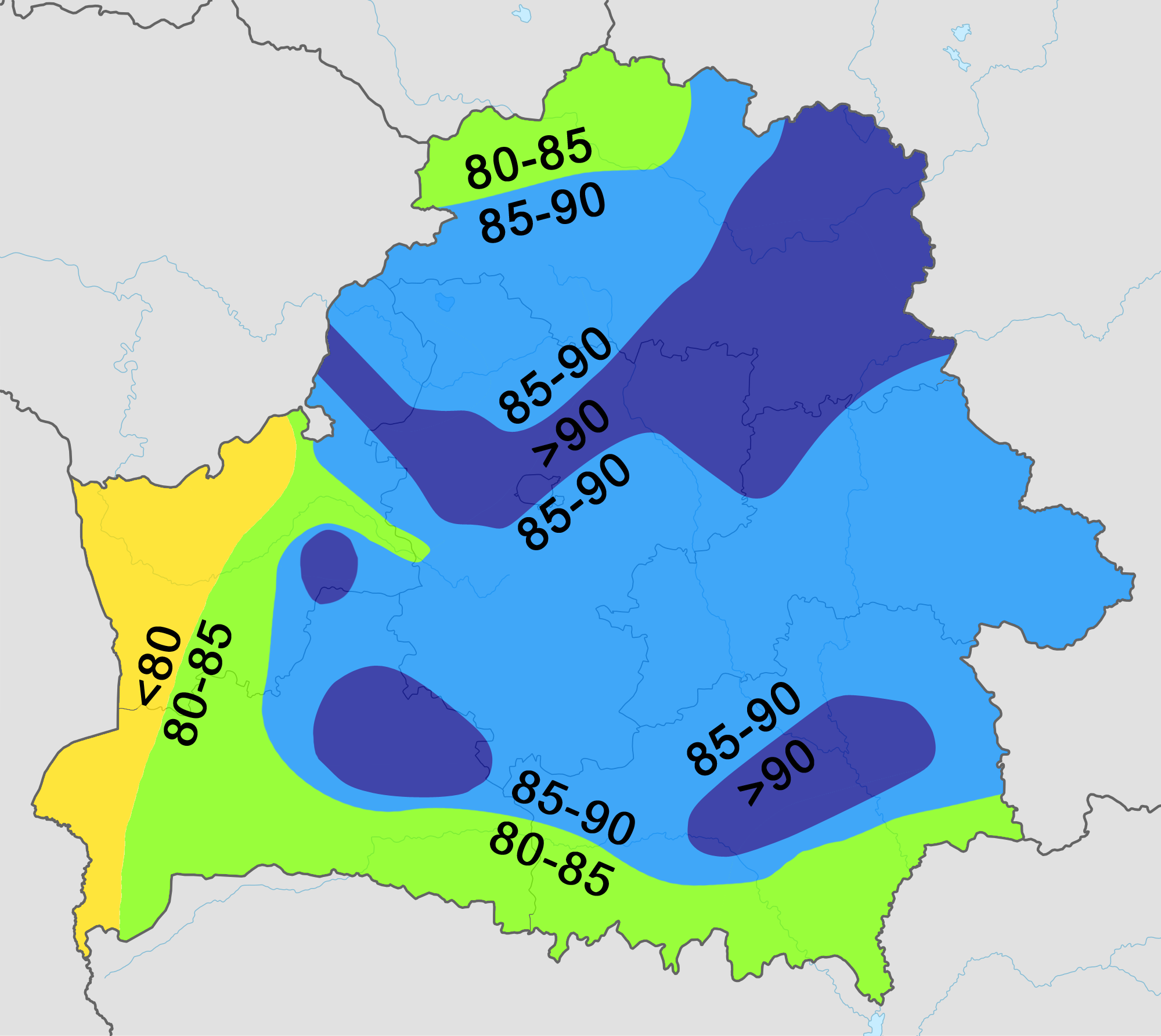 Average precipitation in Belarus in July (in millimeters). Data according to Belarusian Encyclopedia (Vol. 18, Part 2, Minsk, 2004, p. 43)